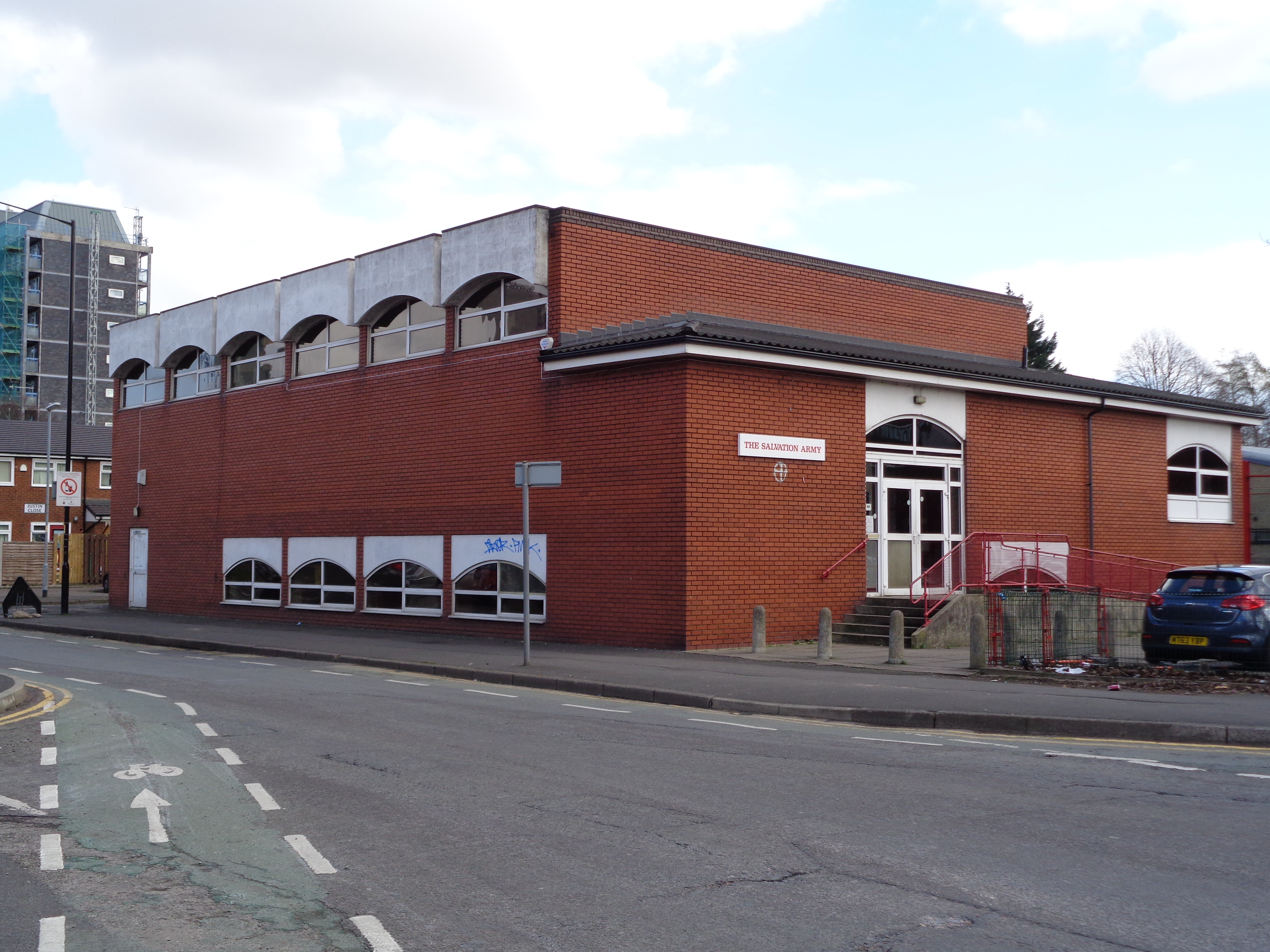 The Salvation Army, Grosvenor Street, Manchester.